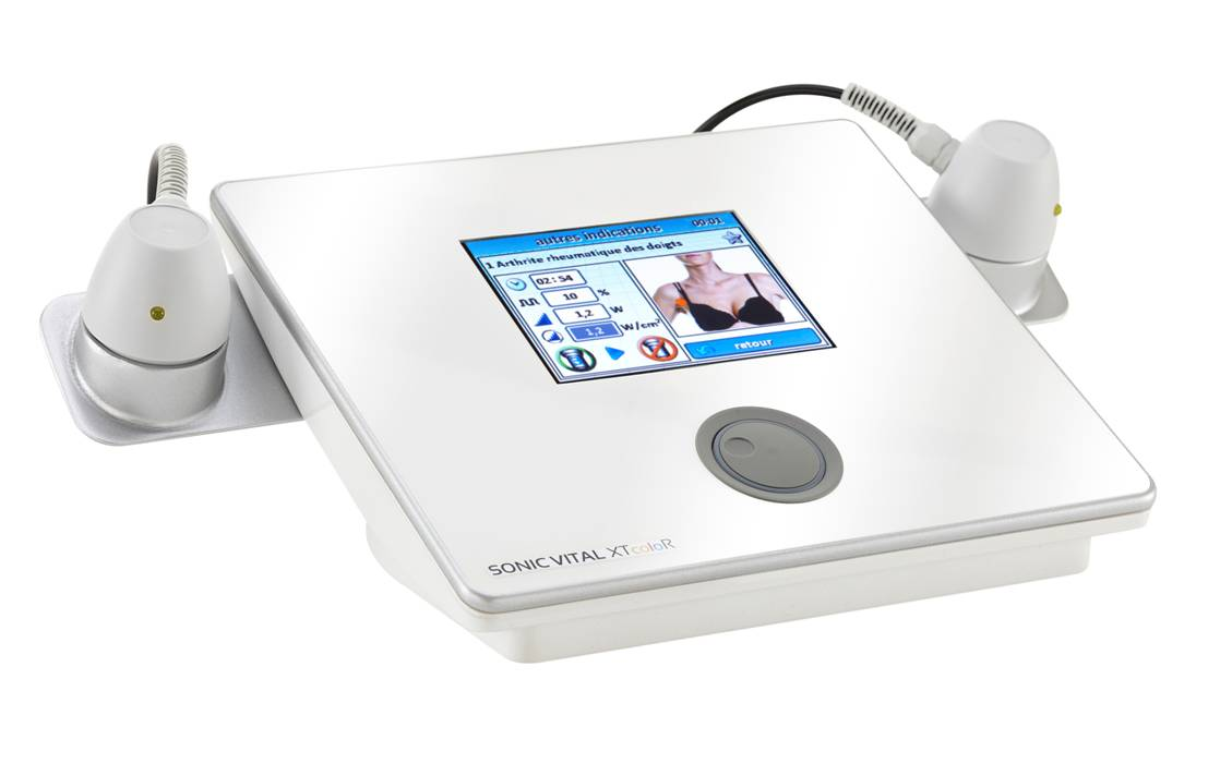 Appareil d'ultrasons thérapeutiques kiné Sonic Vital XT color